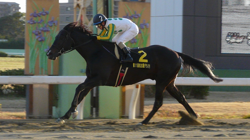 Nihonpiro-ours20111223